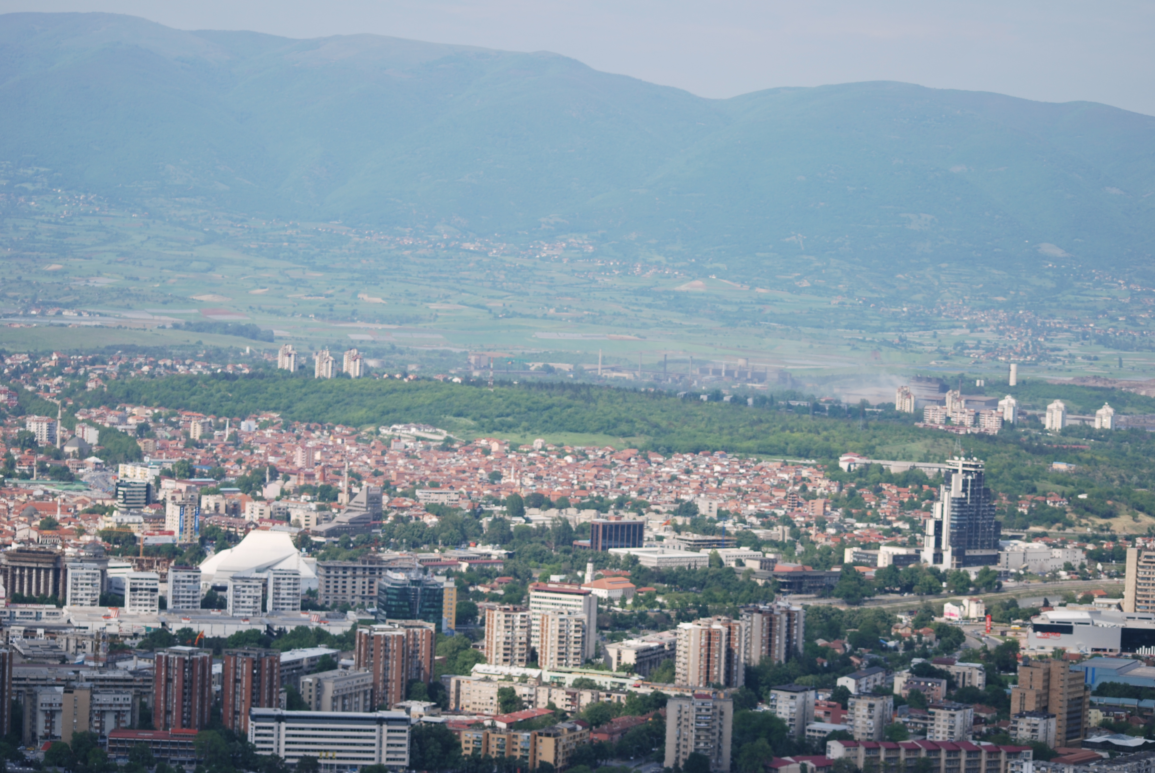 Skopje, Macedonia